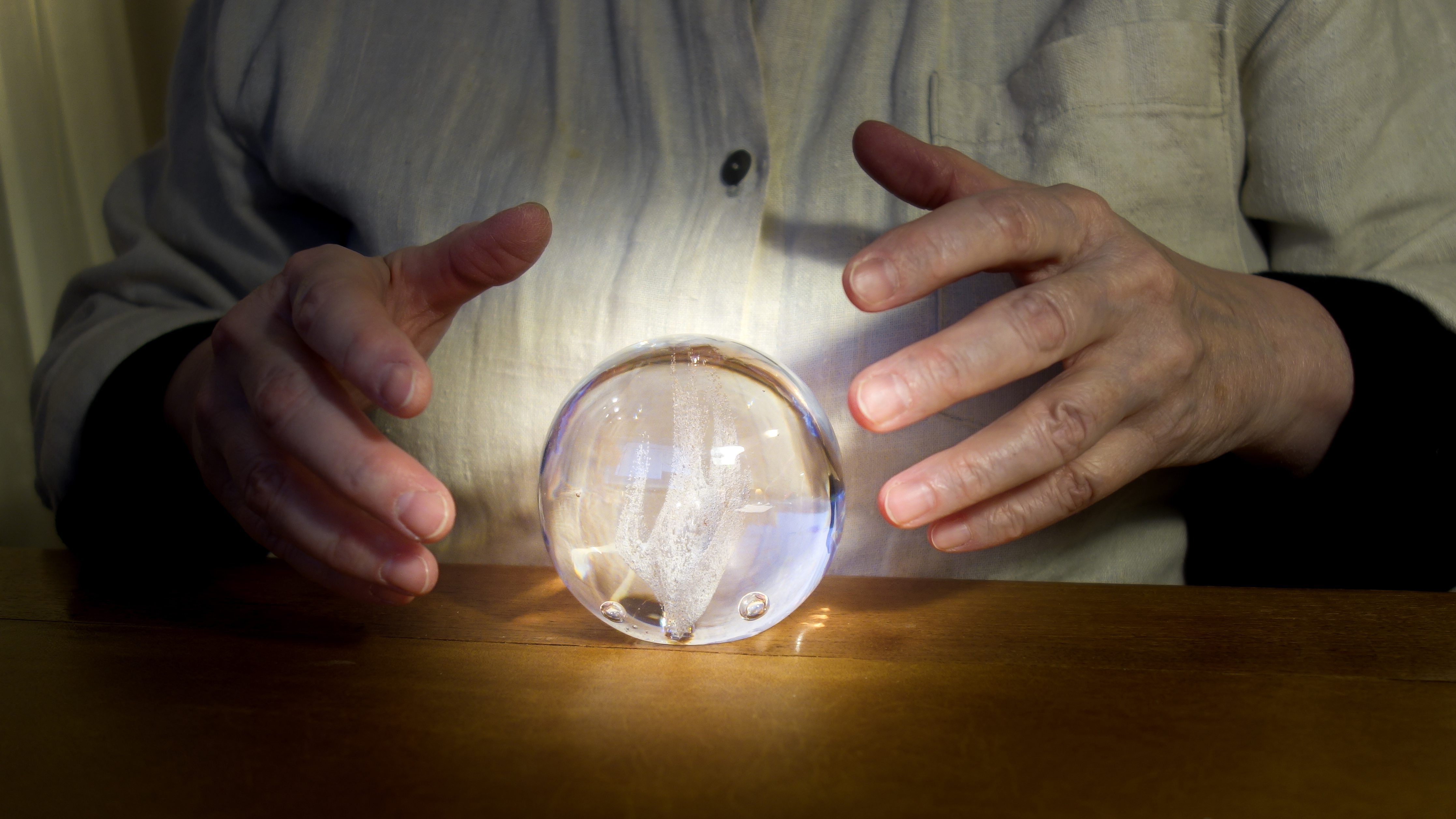 A staged mock setup of a person divining answers from a crystal ball in Lysekil, Sweden. Standing in for the crystal ball is a crystal paperweight with bubbles in it, some large at the bottom and a "flame" of small bubbles in the center of the ball. The paperweight was hand-blown at Kosta glassworks and signed with number 05868. The glow was made by pointing a lamp on the desk at the ball plus some Lightroom editing. The blue lights in the ball are reflections from a nearby computer screen.